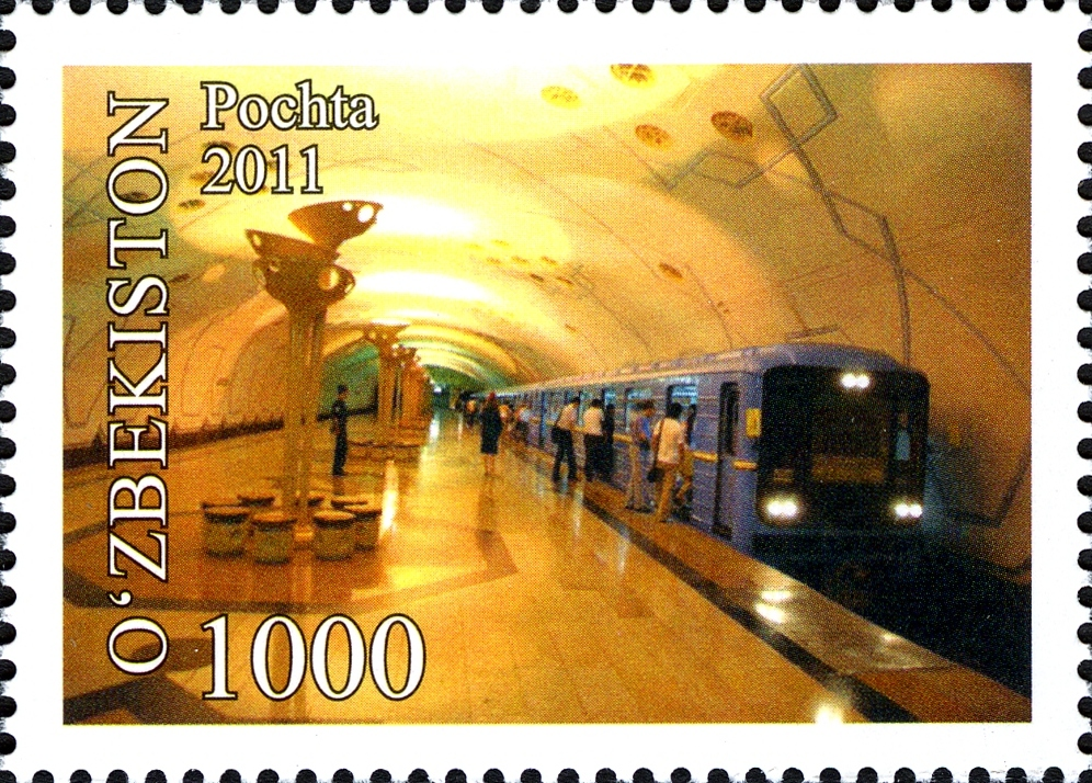 A stamp of Uzbekistan from The 20th Year of the Independence of Uzbekistan series, 2011. It depicts the Tashkent Metro station Bodomzor.